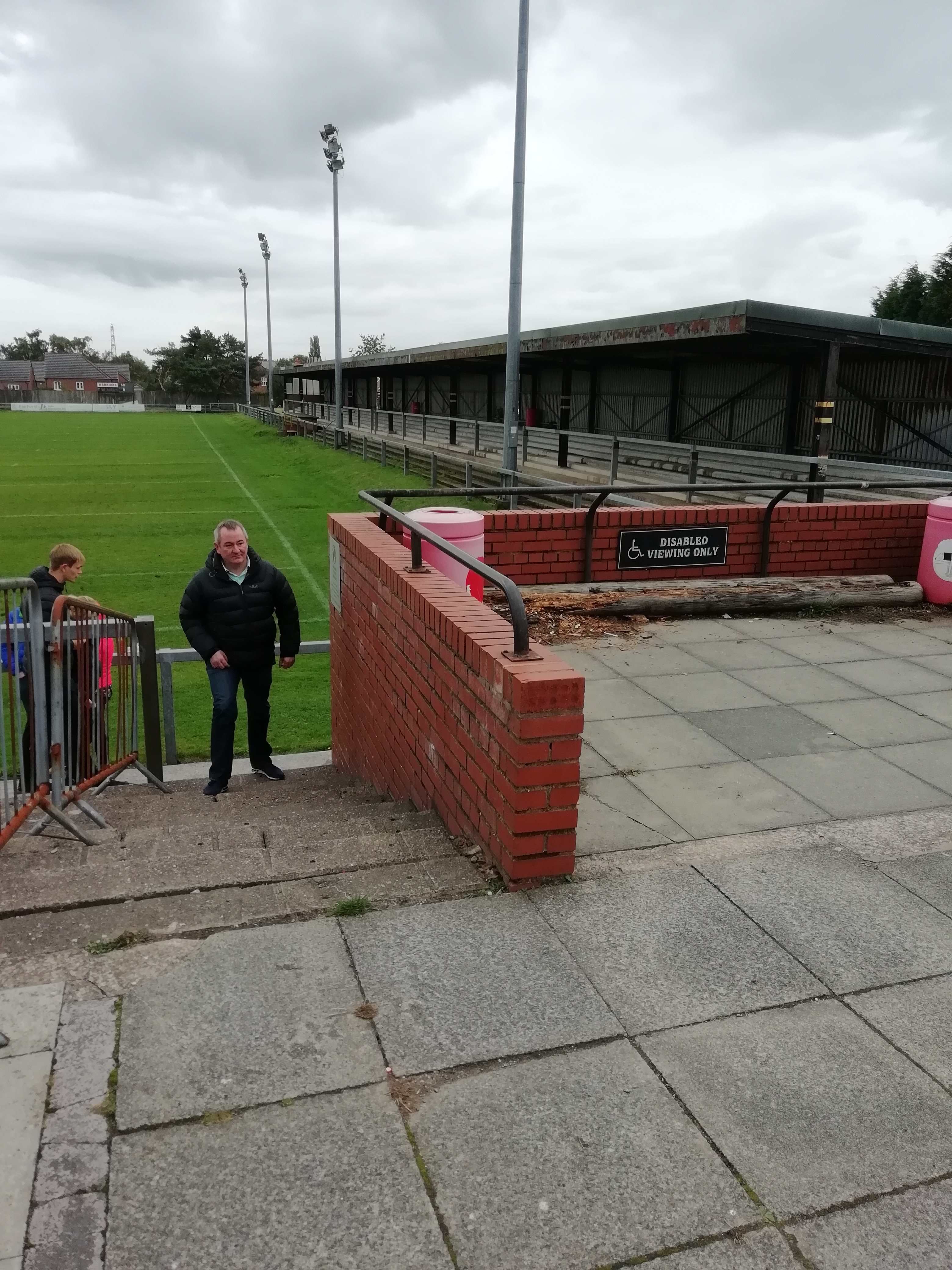 terracing at Orrell